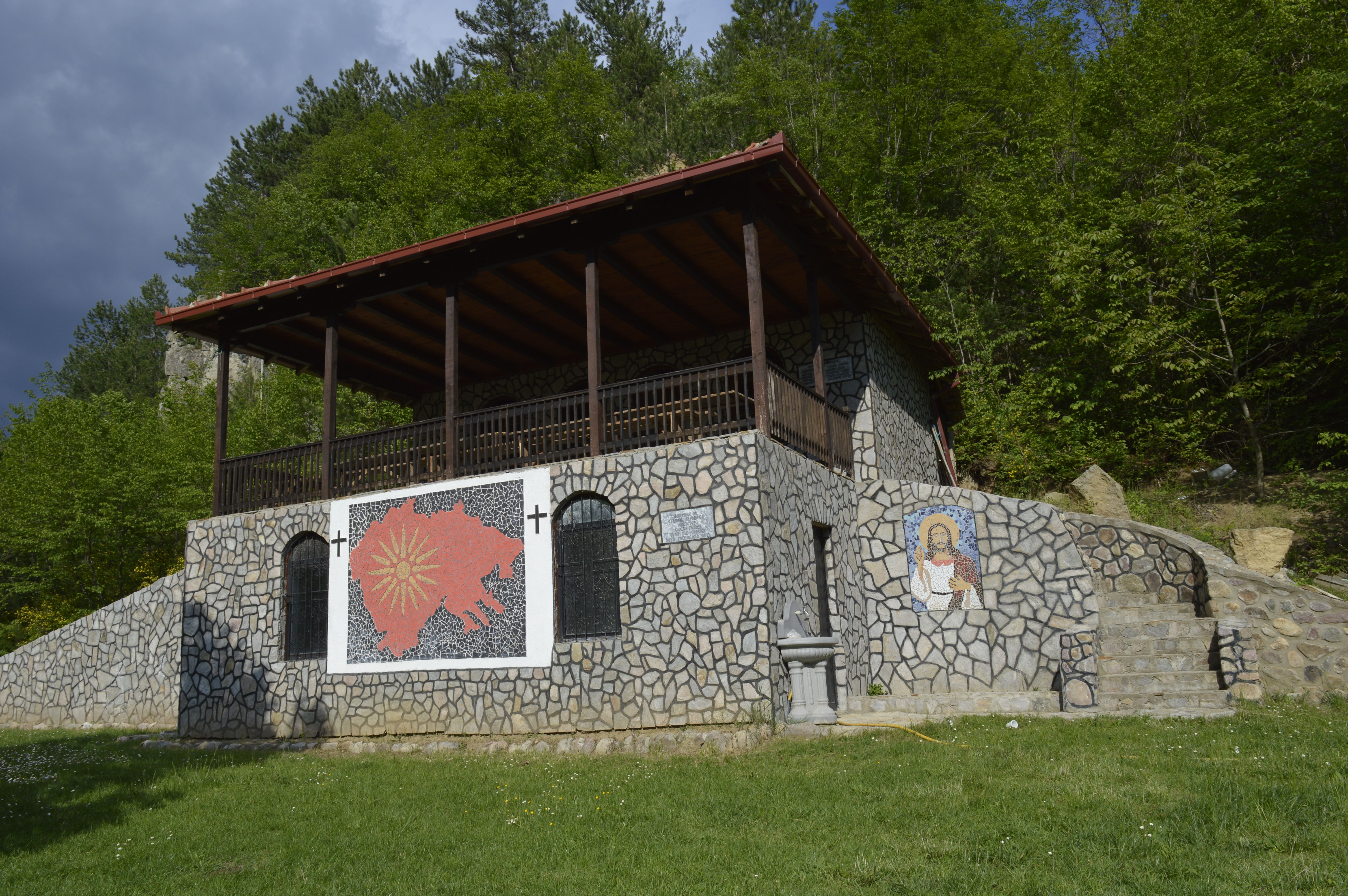 Hospices of Dzvegor Monastery